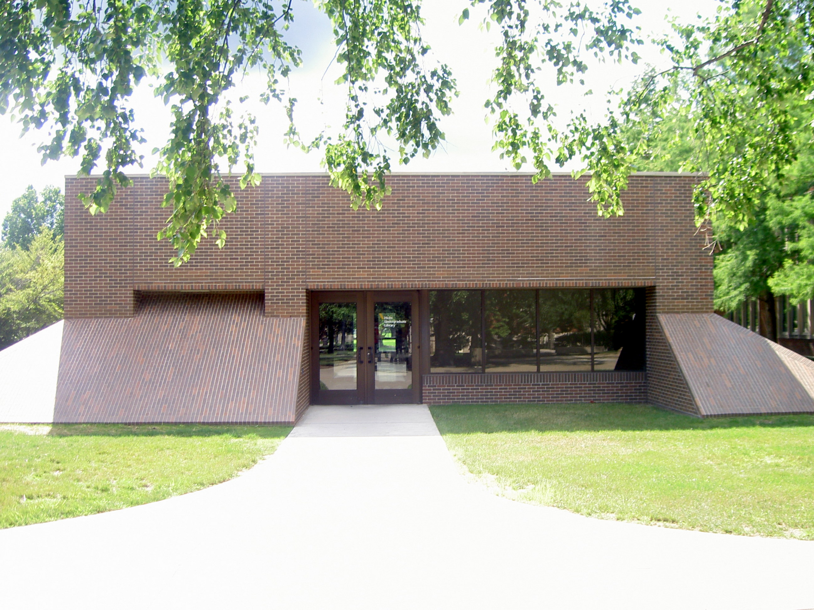 Books are underground.